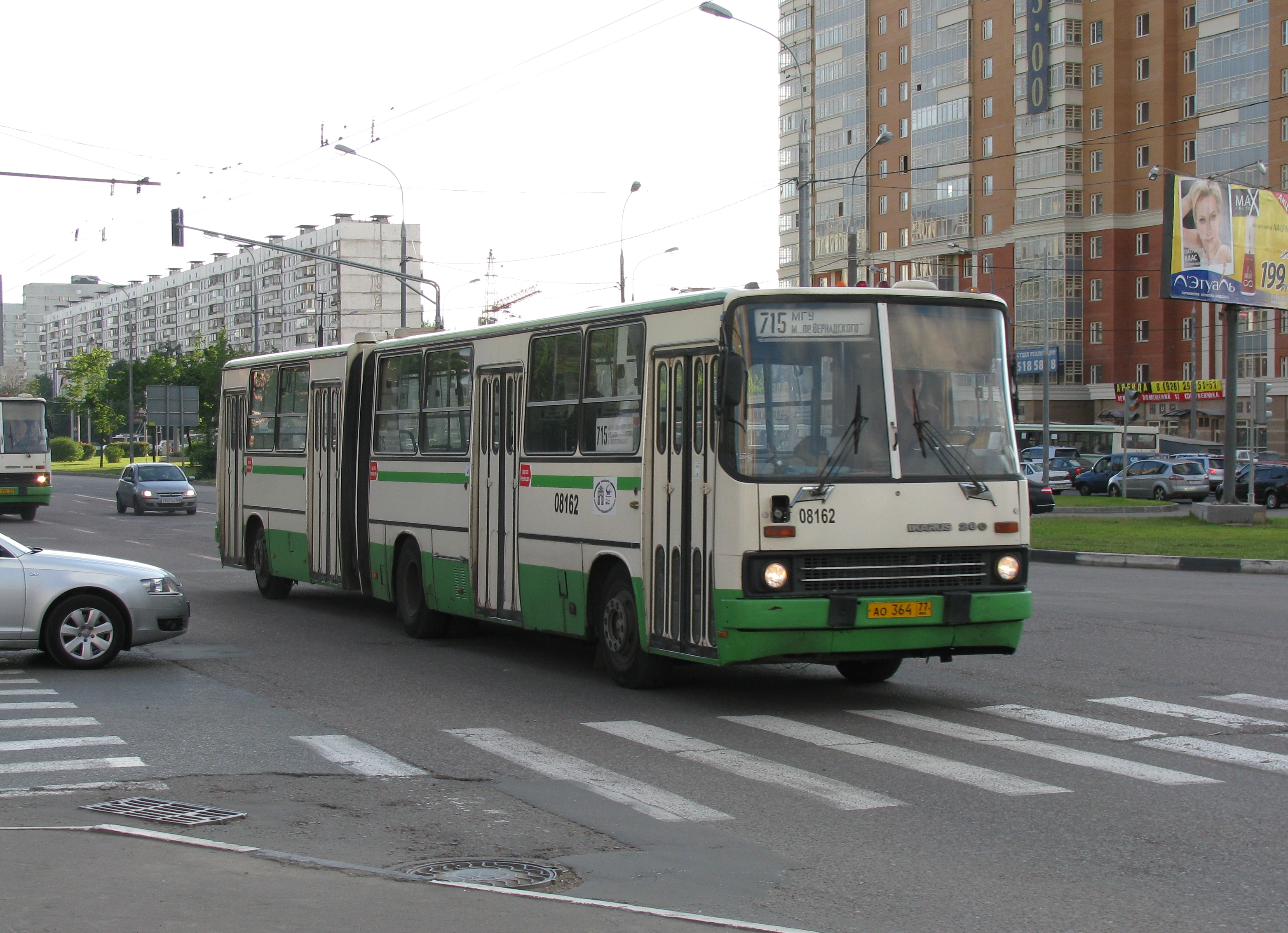 Ikarus-280.33M in Moscow